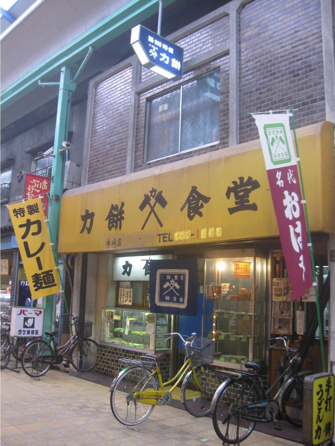 Chikaramochi-shokudo Nakazaki-ten (Osaka, Japan)